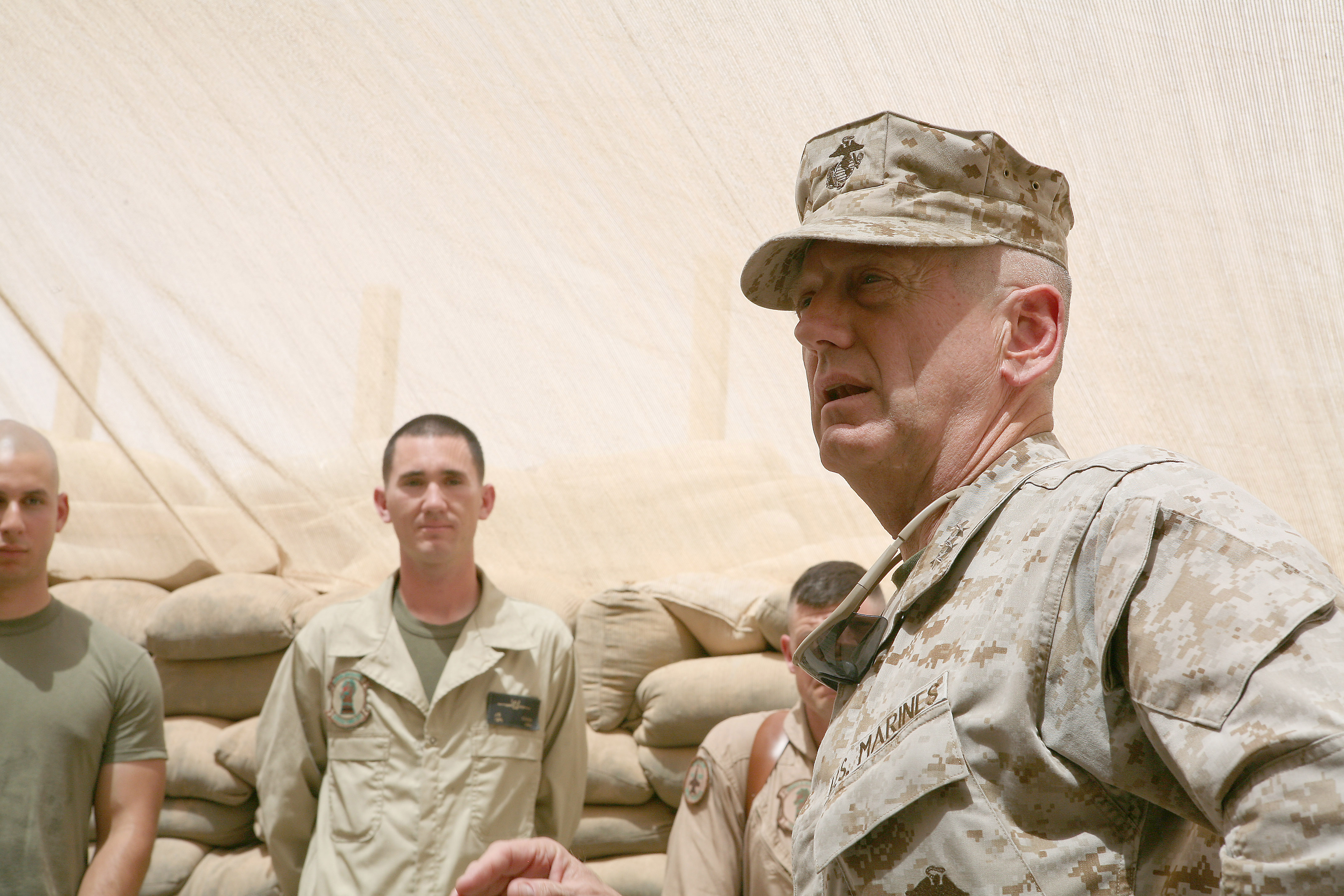 AL ASAD, Iraq - Lt. Gen. James Mattis, the commander of U.S. Marine Corps Forces Central Command, speaks to the Marines of the maintenance section from Marine All-Weather Fighter Attack Squadron 121 on the Al Asad flightline, May 6. After talking to them, Mattis welcomed any questions.